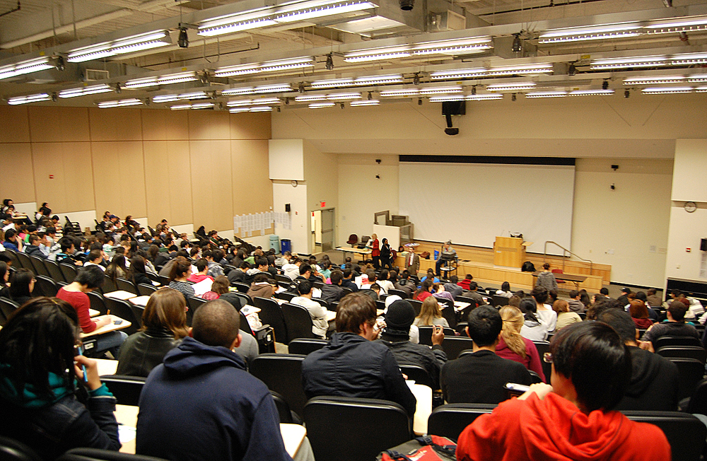 5th floor lecture hall at Baruch College. Taken on the day of an Economics Final Examination. The watermark is my own; I have full rights to this image and am the original photographer for this image.